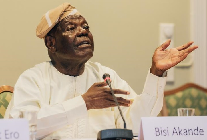 Photograph taken at Oslo Forum